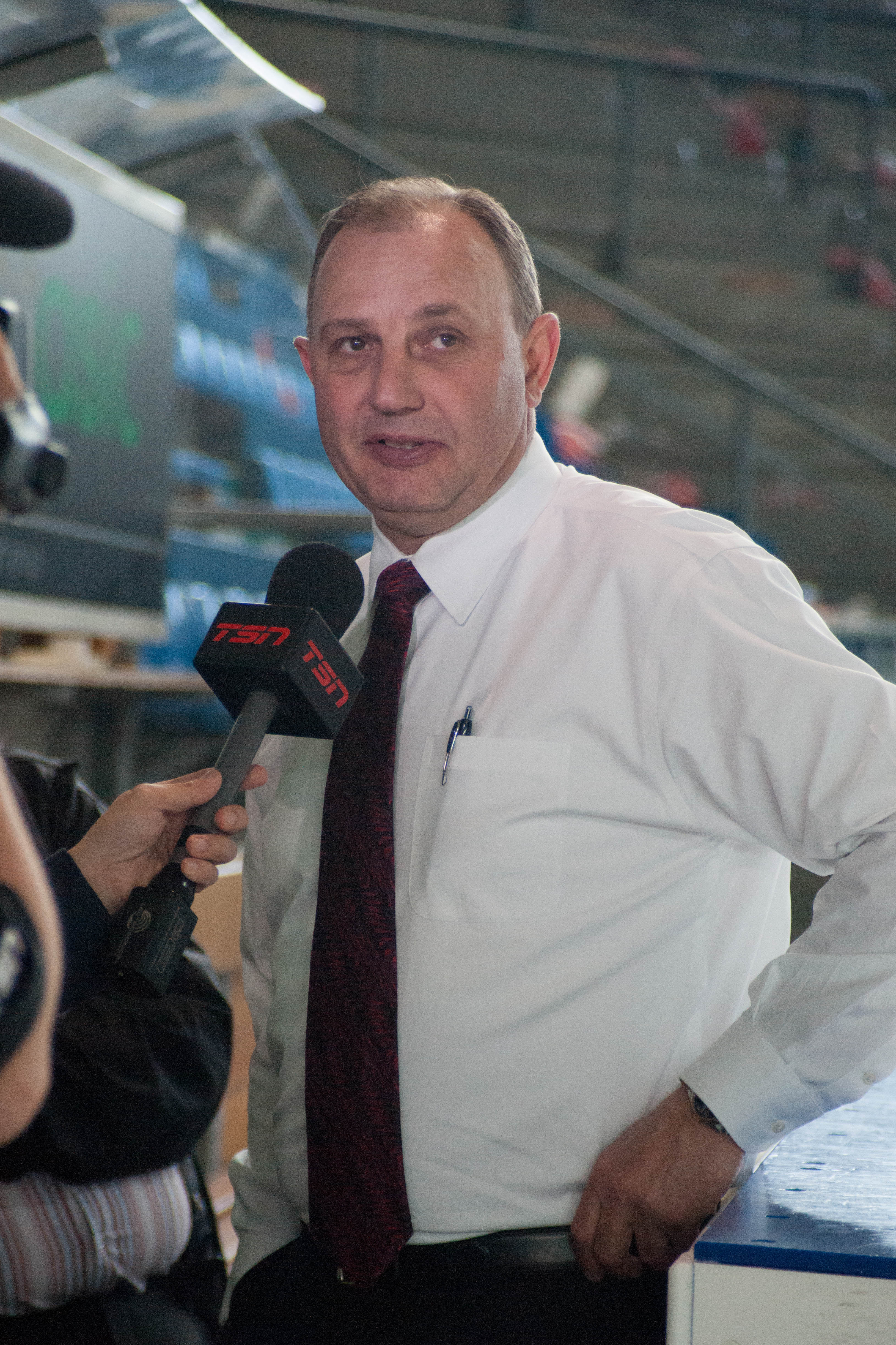 Switzerland vs. Canada, 29th April 2012